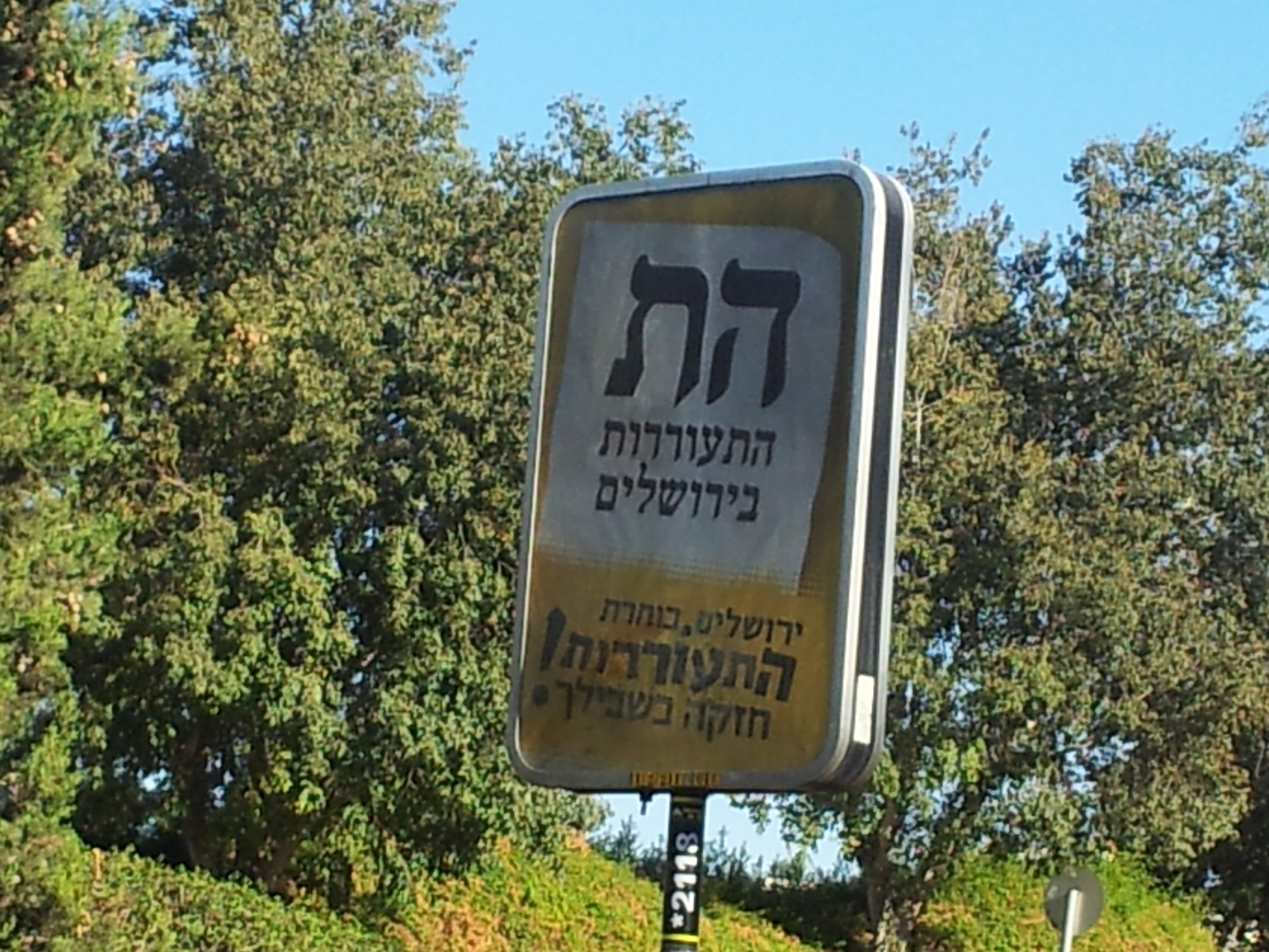 hitorerut party 2013 monicipal elections sign, Jerusalem